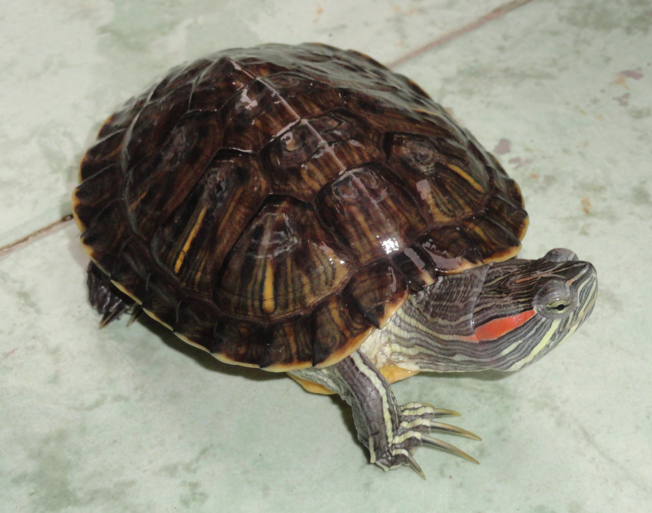 బయట వున్న తాబేలు